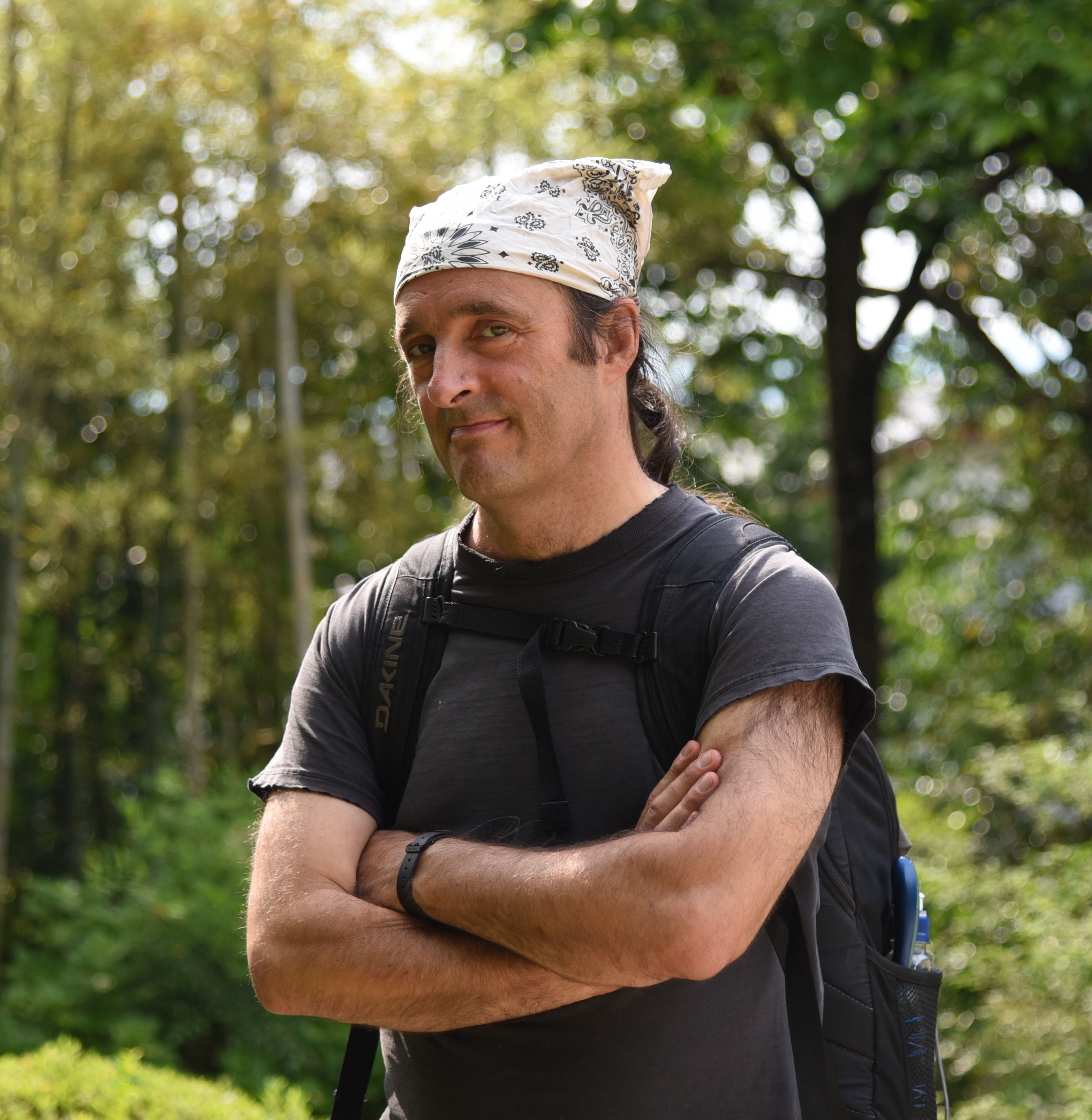 Pictured: Andy Couturier